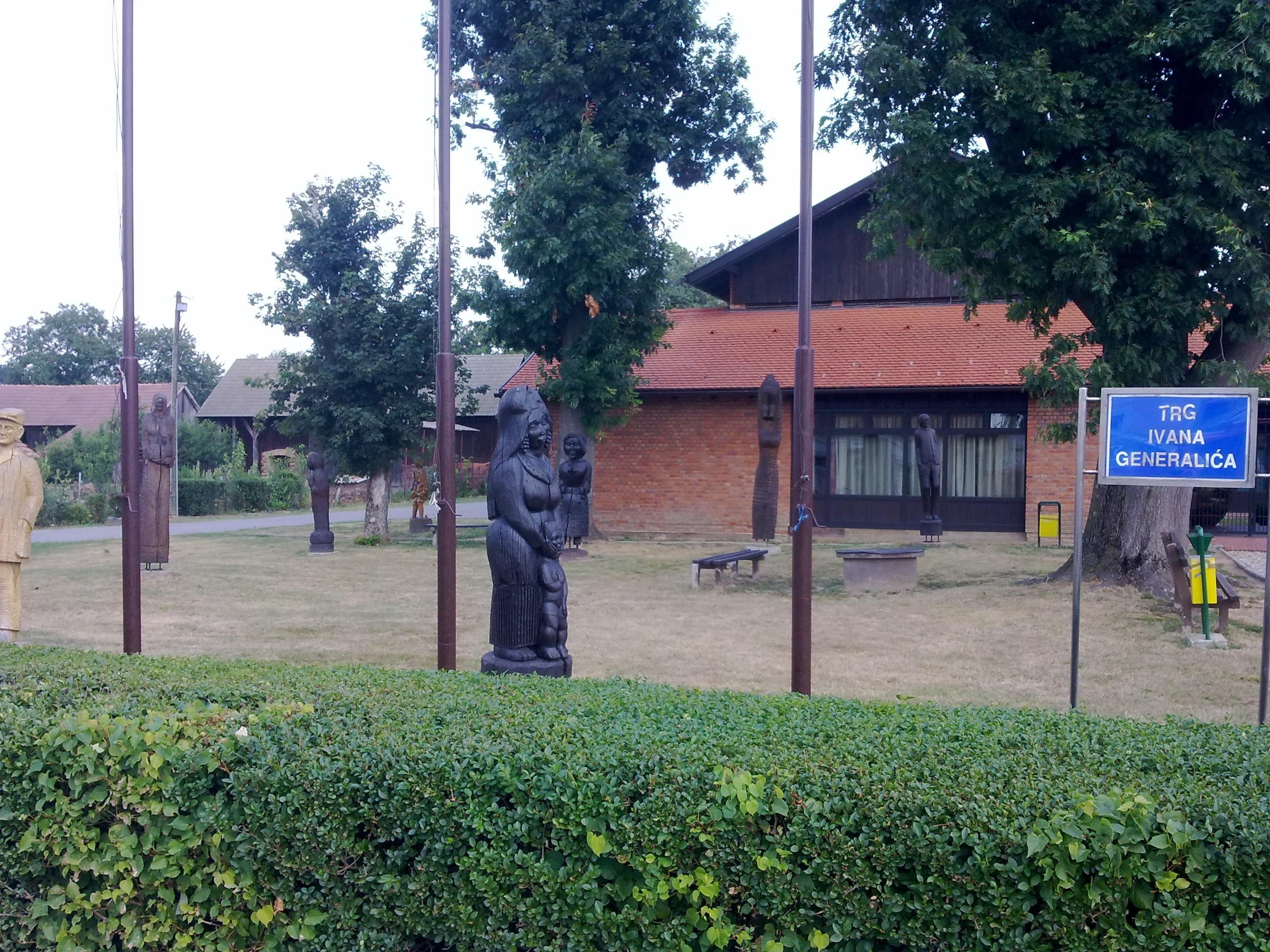 Museum Hlebine